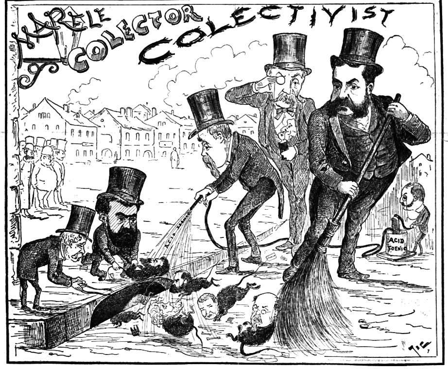 Marele colector colectivist ("The Great Collectivist Gutter"), depicting political life in 1888–1889 Romania. The new Conservative administration using phenol, a powerful disinfectant, to clean out the streets of Bucharest, infested by the outgoing National Liberal government. The disinfecting team, from left: Lascăr Catargiu, Nicolae Fleva, unknown (possibly Theodor Rosetti and George D. Vernescu, or the physician Iacob Felix), Petre P. Carp, Gheorghe Gr. Cantacuzino, and, in the background, physician Victor Babeș. The "rats" include Ion Brătianu and Mihail Kogălniceanu.